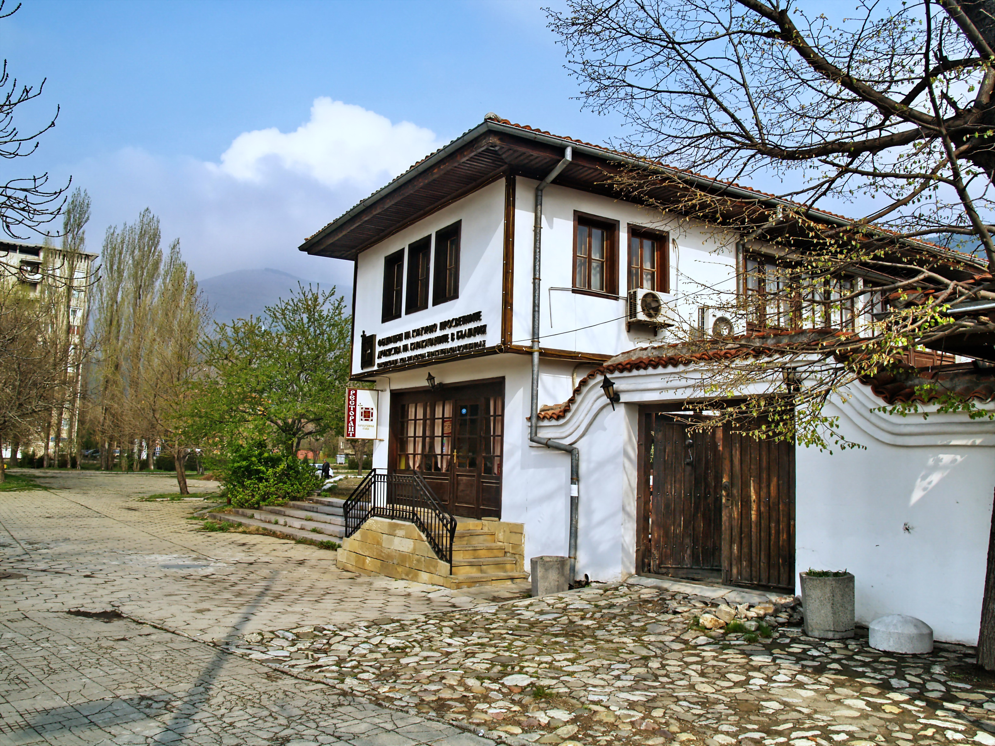 Federation of Bulgarian Saracatsani Cultural Societies in Sliven, Bulgaria